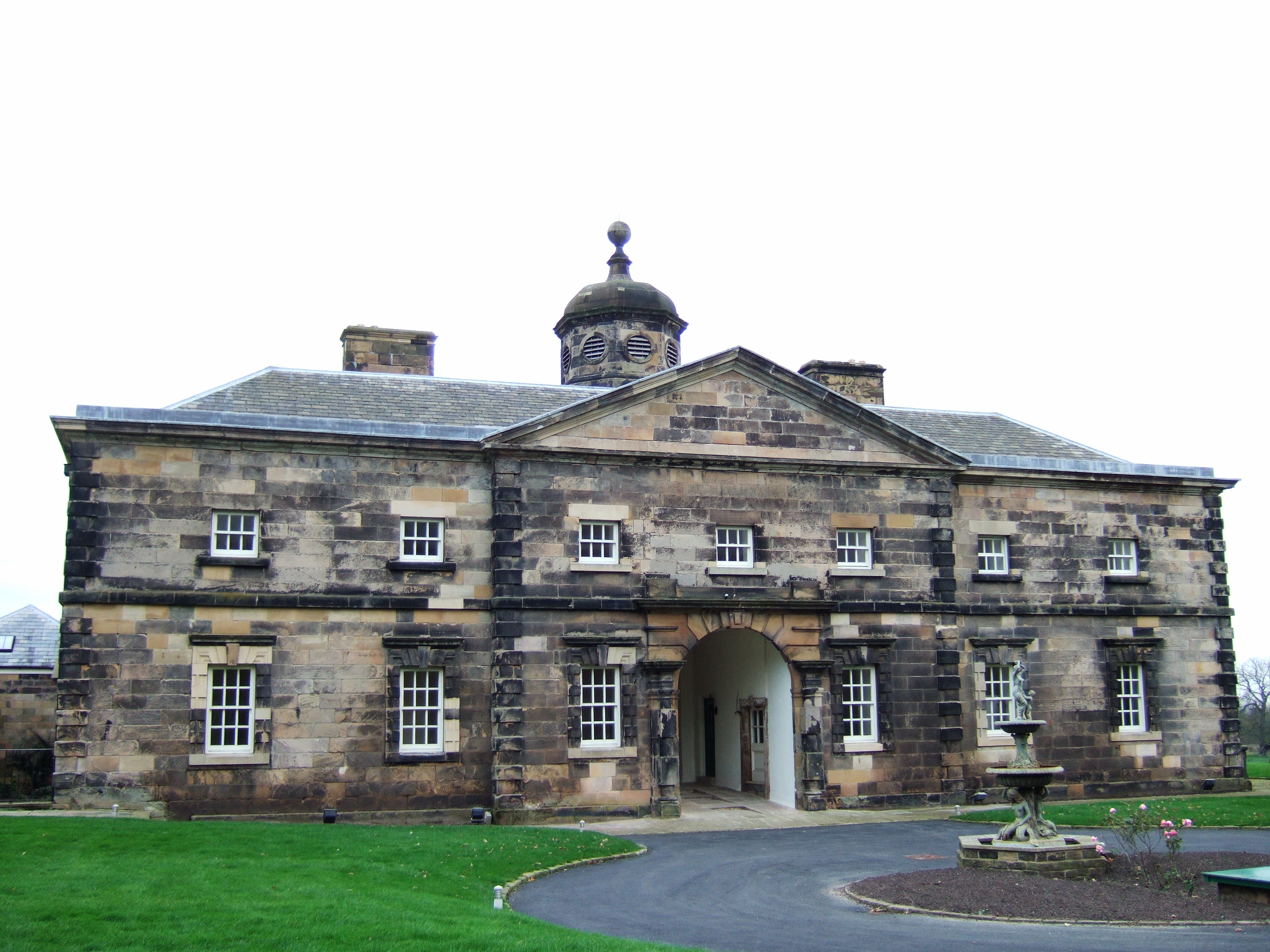 The surviving "West Wing" of Lathom House, recently converted into apartments.